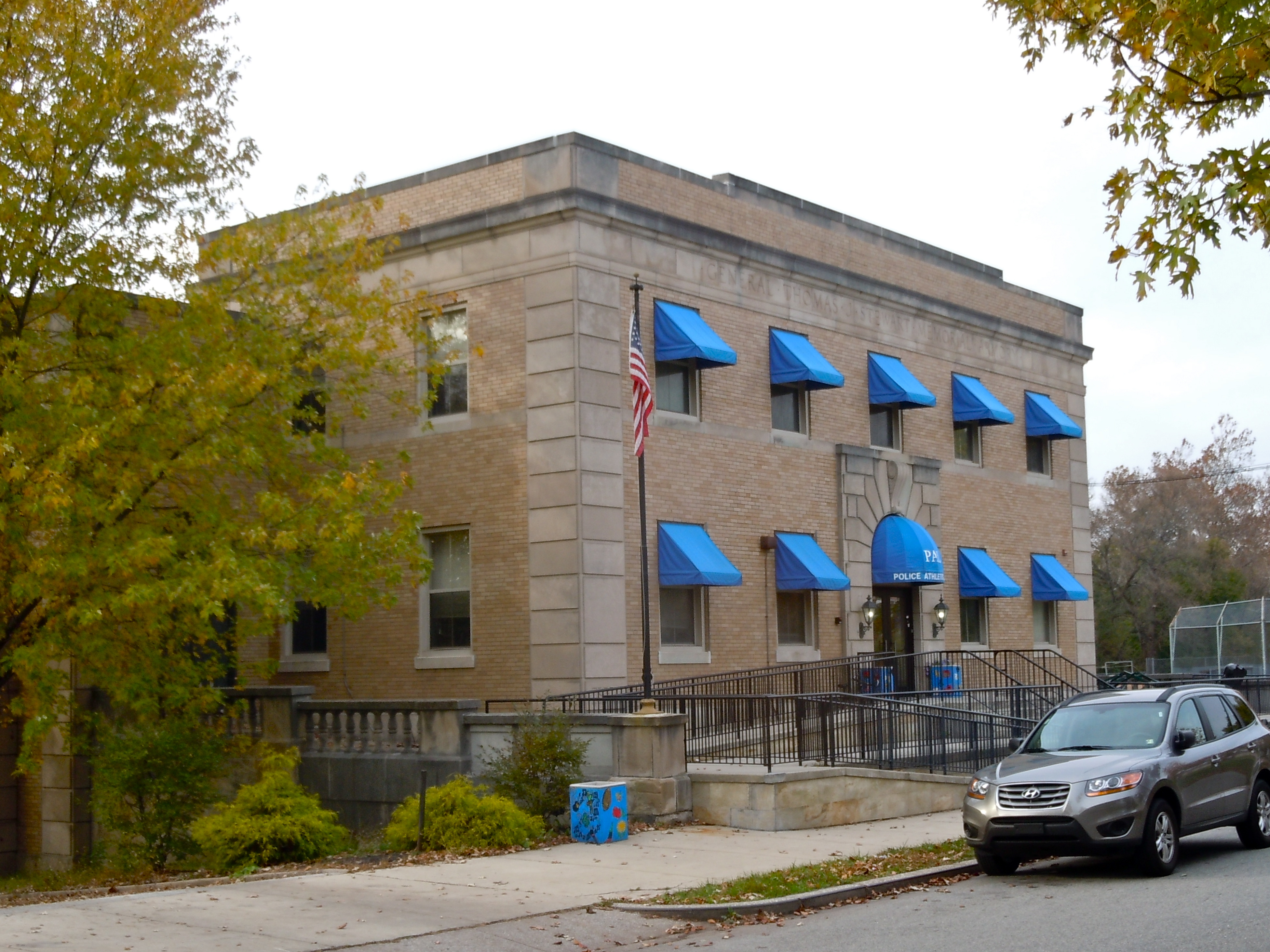 Gen. Thomas J. Stewart Memorial Armory (now Police Athletic League) on the NRHP since July 12, 1991. At 340 Harding Boulevard, Norristown, Montgomery County, Pennsylvania